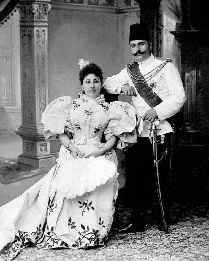 Shivakiar Khanum Effendi with her husband, King Fuad.